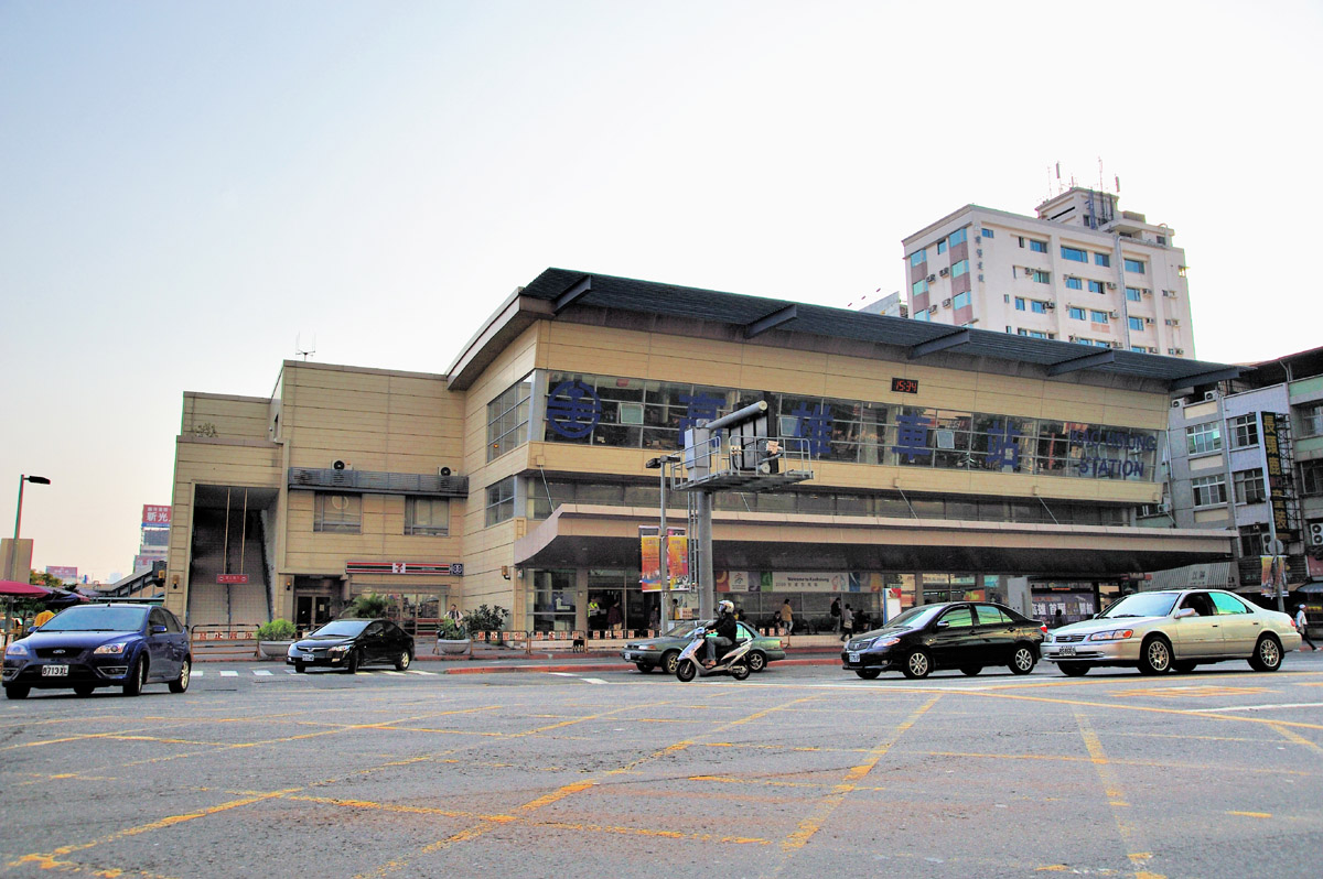 FongShan Station is a main station of TRA Western Main Line and PingTung Line, and also served as the main station of the city. This photo shows the KaoHsiung Rear Station (The rear exit of the station).